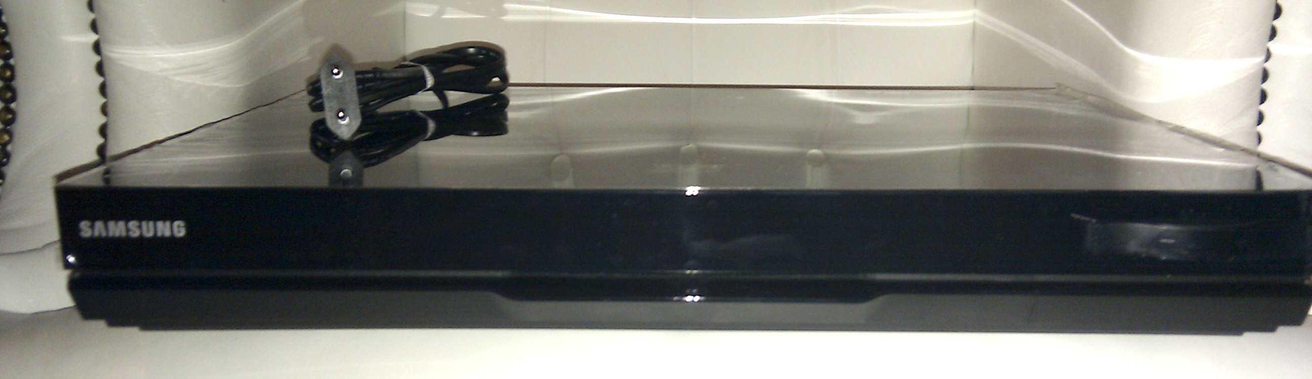 Samsung HT-5200 XN EAN 8 806071 237725 Front view